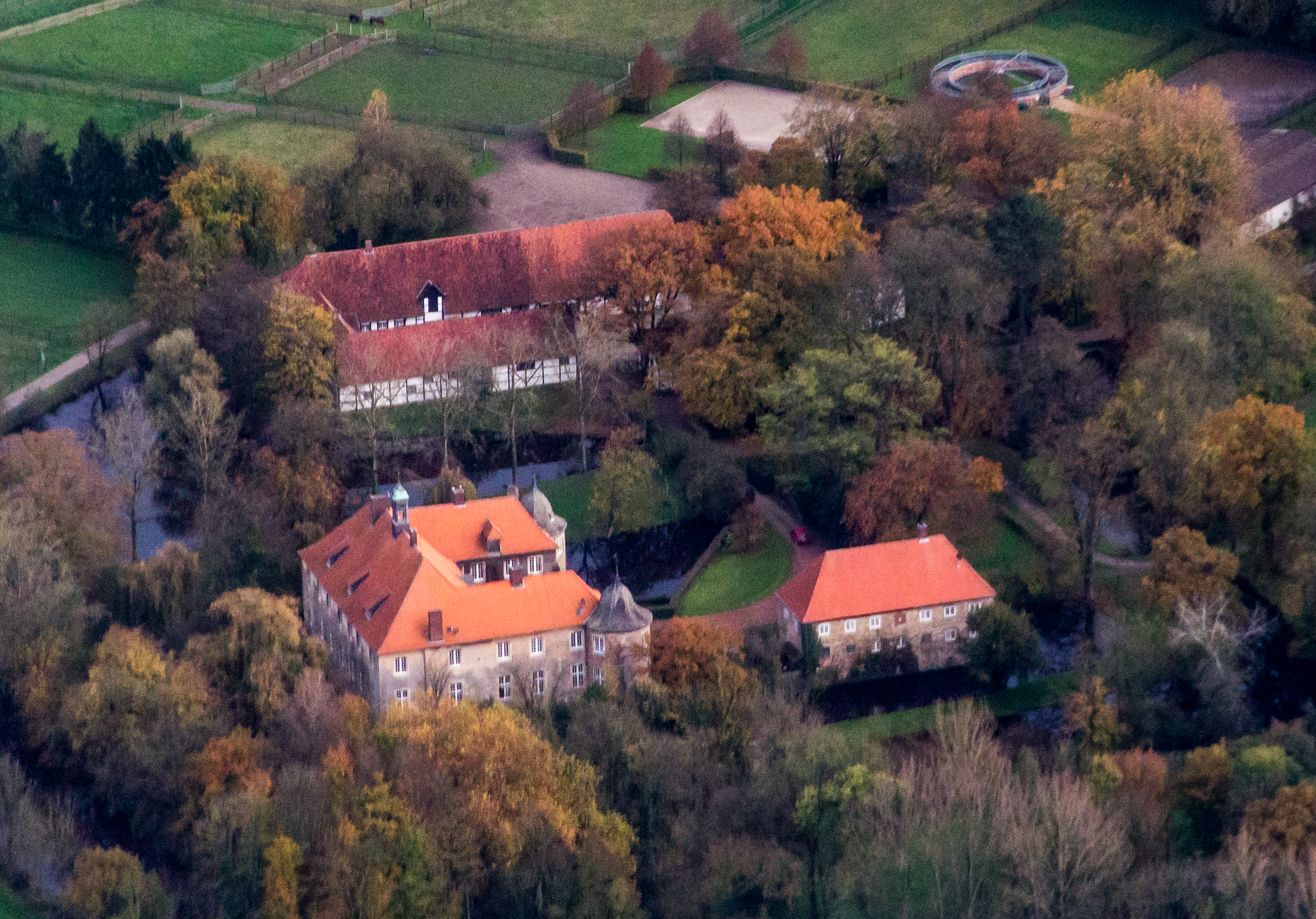 Itlingen Manor, Ascheberg, North Rhine-Westphalia, Germany